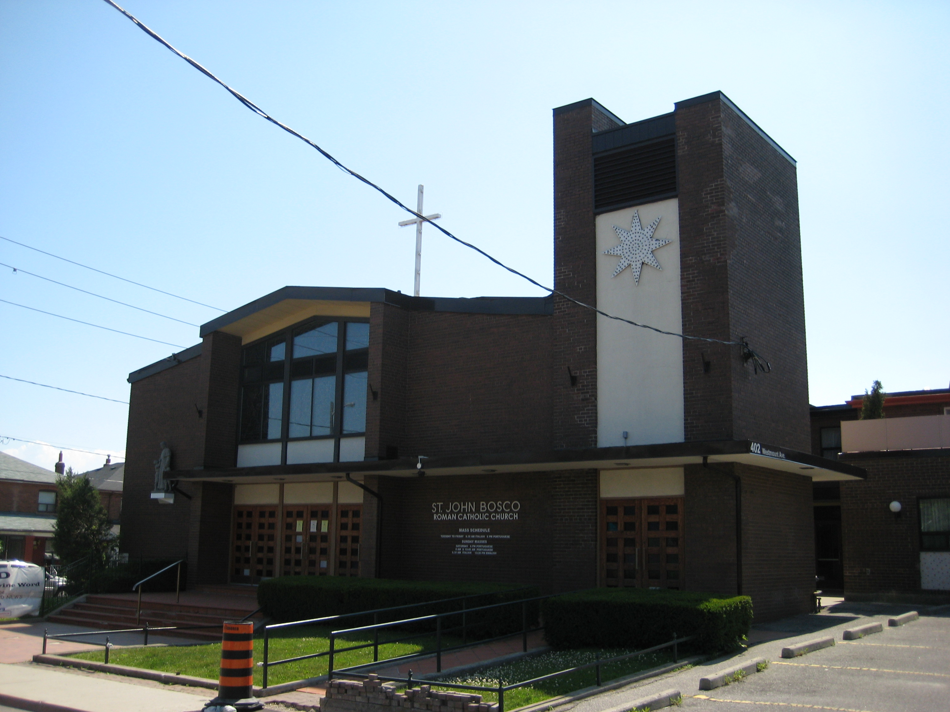 St John Bosco Roman Catholic Church, Toronto